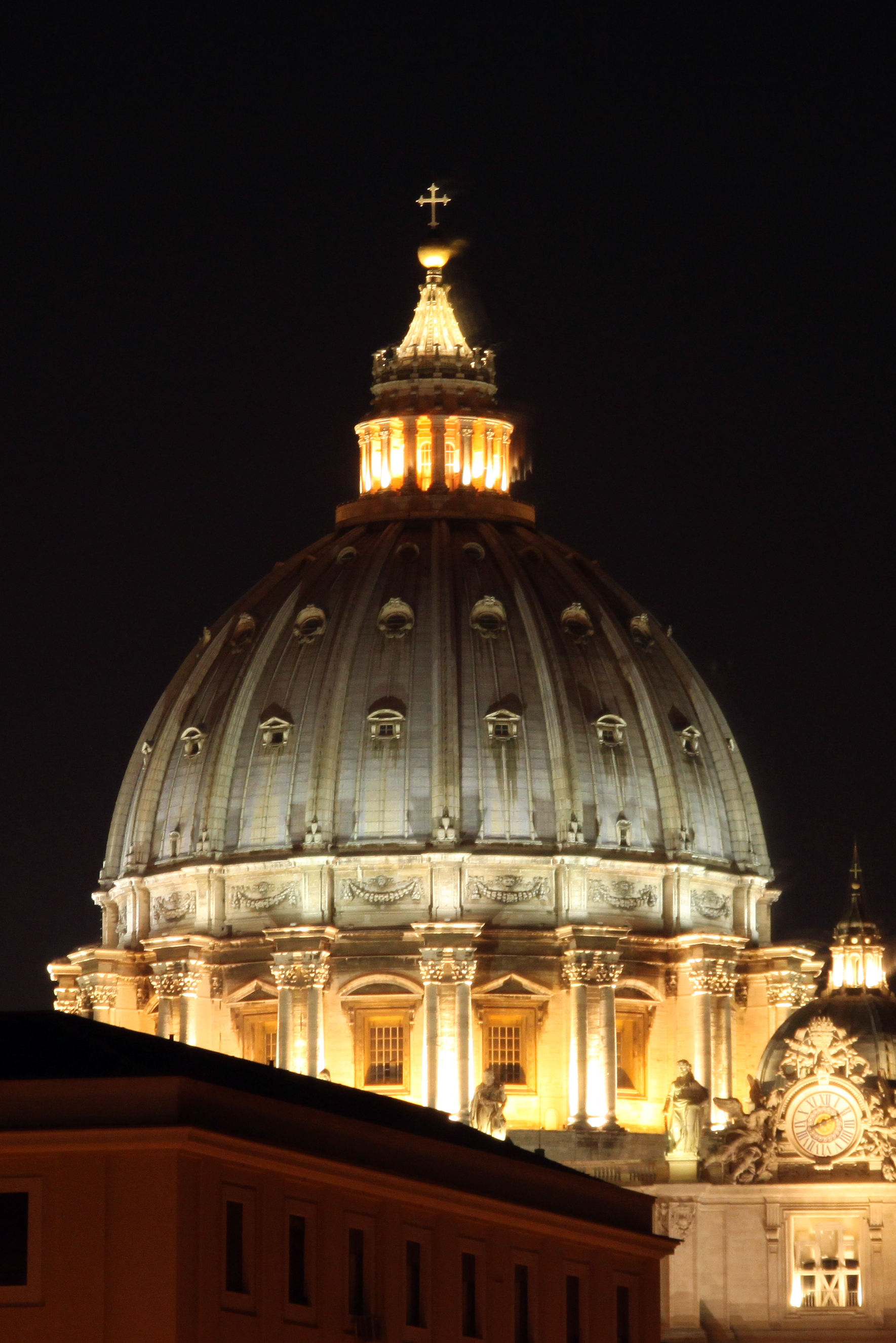 The dome of St. Peter's Basilica in Rome (Italy), shot at night from the secret passageway Passetto di Borgo.